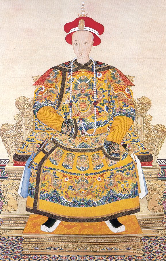 The Imperial Portrait of a Chinese Emperor called "Tongzhi".